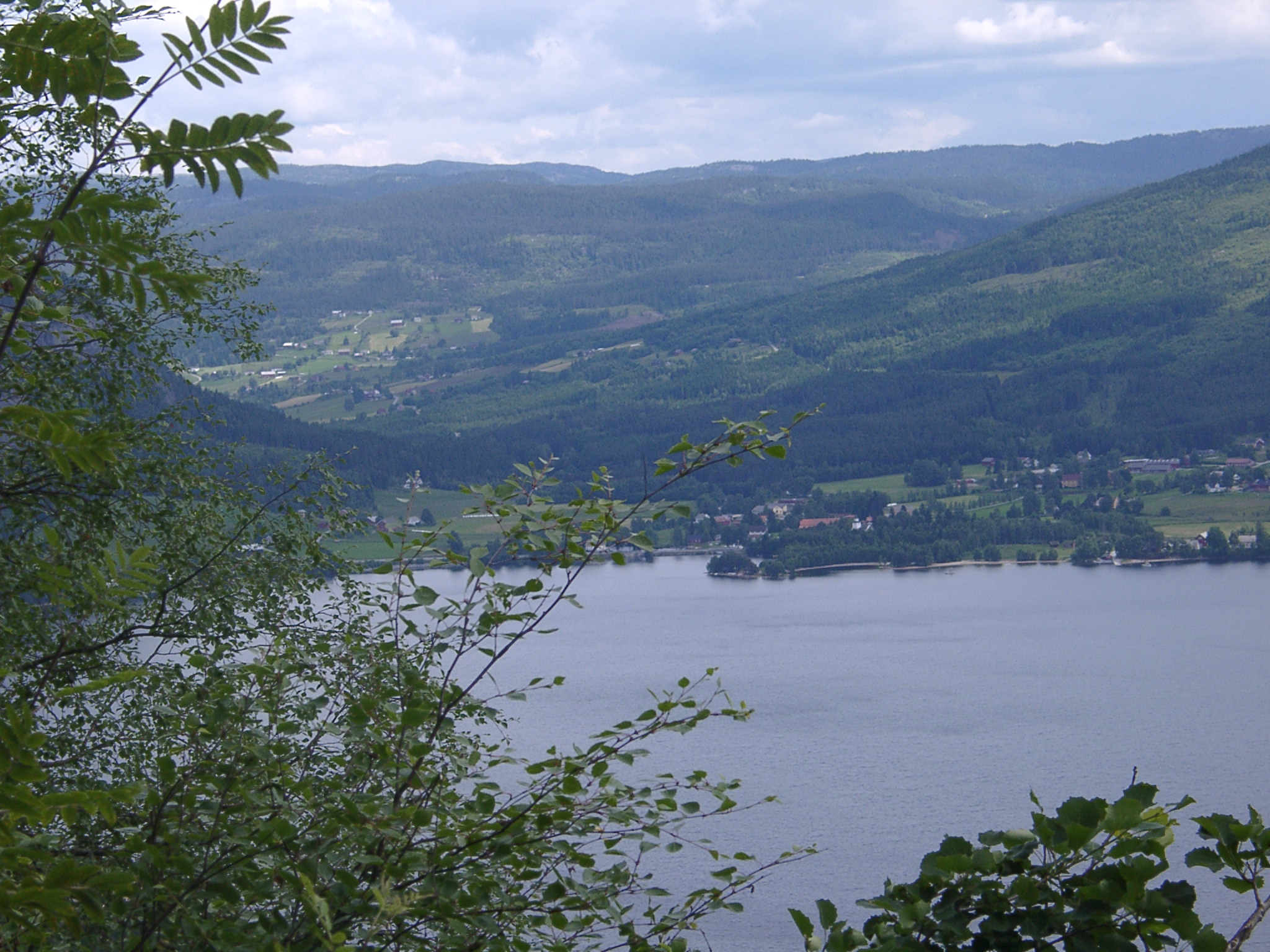 The town of Bygland, Norway. The town of Jordalsbø in the background.